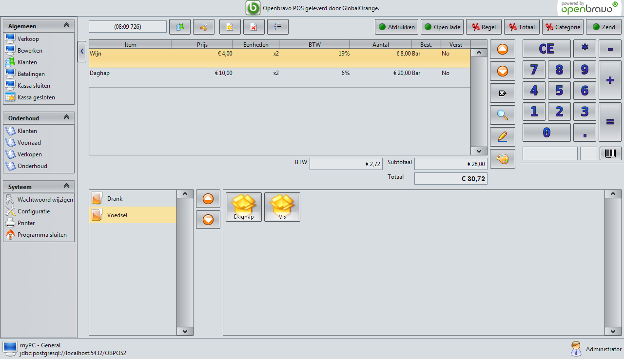 Openbravo POS Screenshot Dutch Language